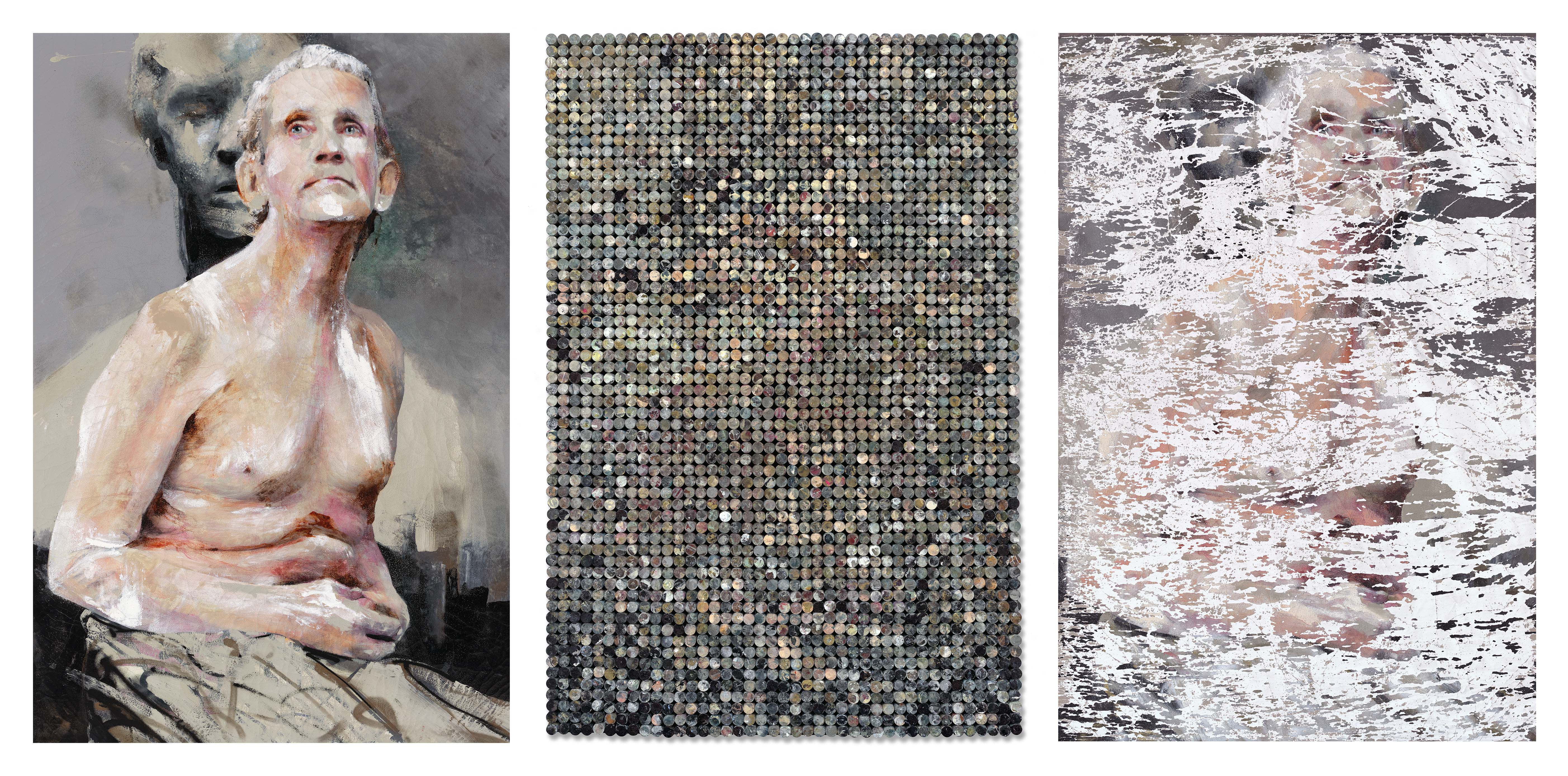 Triptique consisting of figurative, abstract and the broken work. Each 215x145cm. Mixed media on canvas.